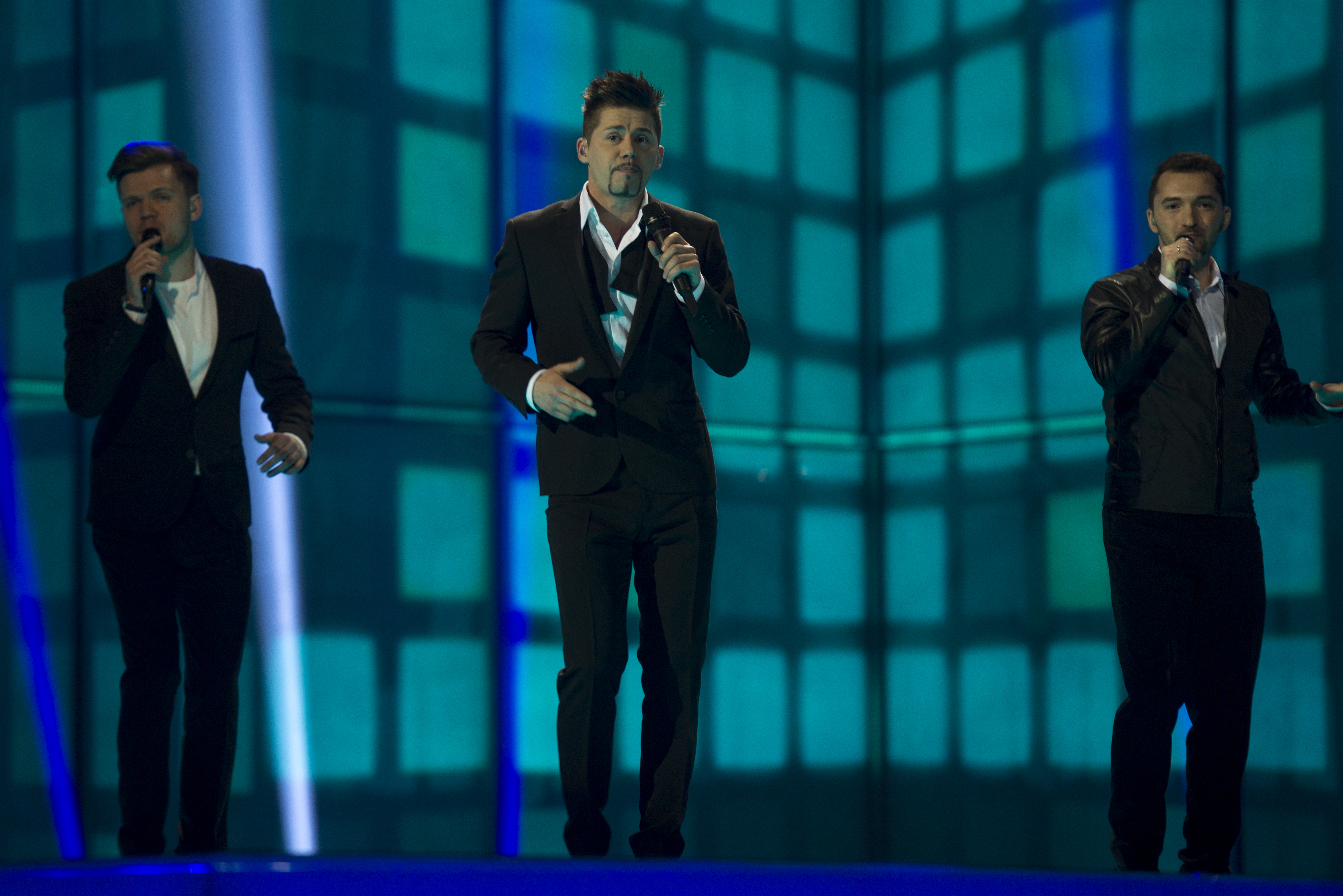 Teo representing Belarus with the song "Cheesecake" during the first dress rehearsal of the second semi final of the Eurovision Song Contest 2014 Copenhagen. (Help translate this text)